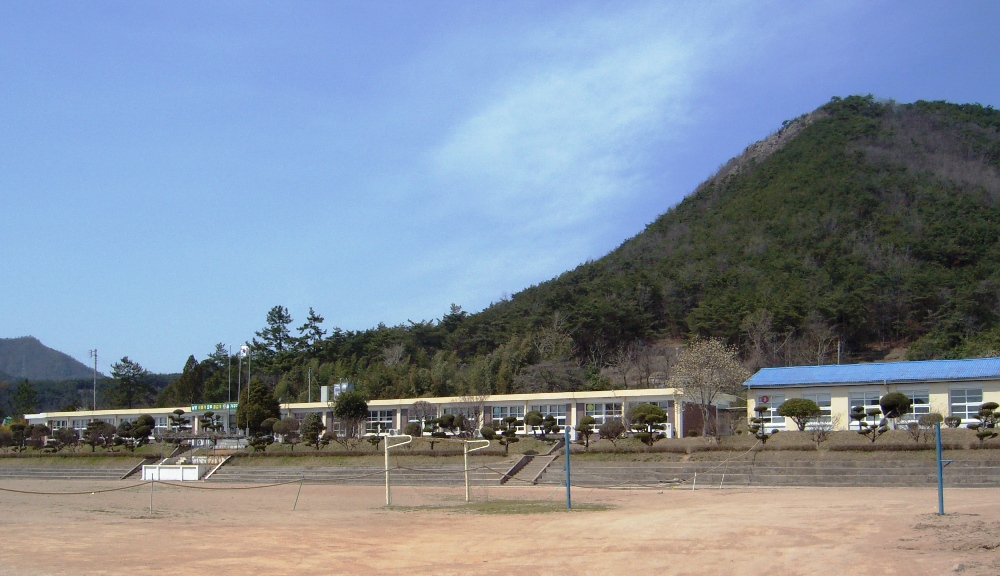 Mongtanbuk Elementary School(Closed down; the building is not used as a school since May 2010)